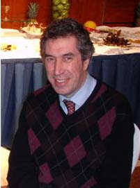 Neuro-scientist David R Brown.